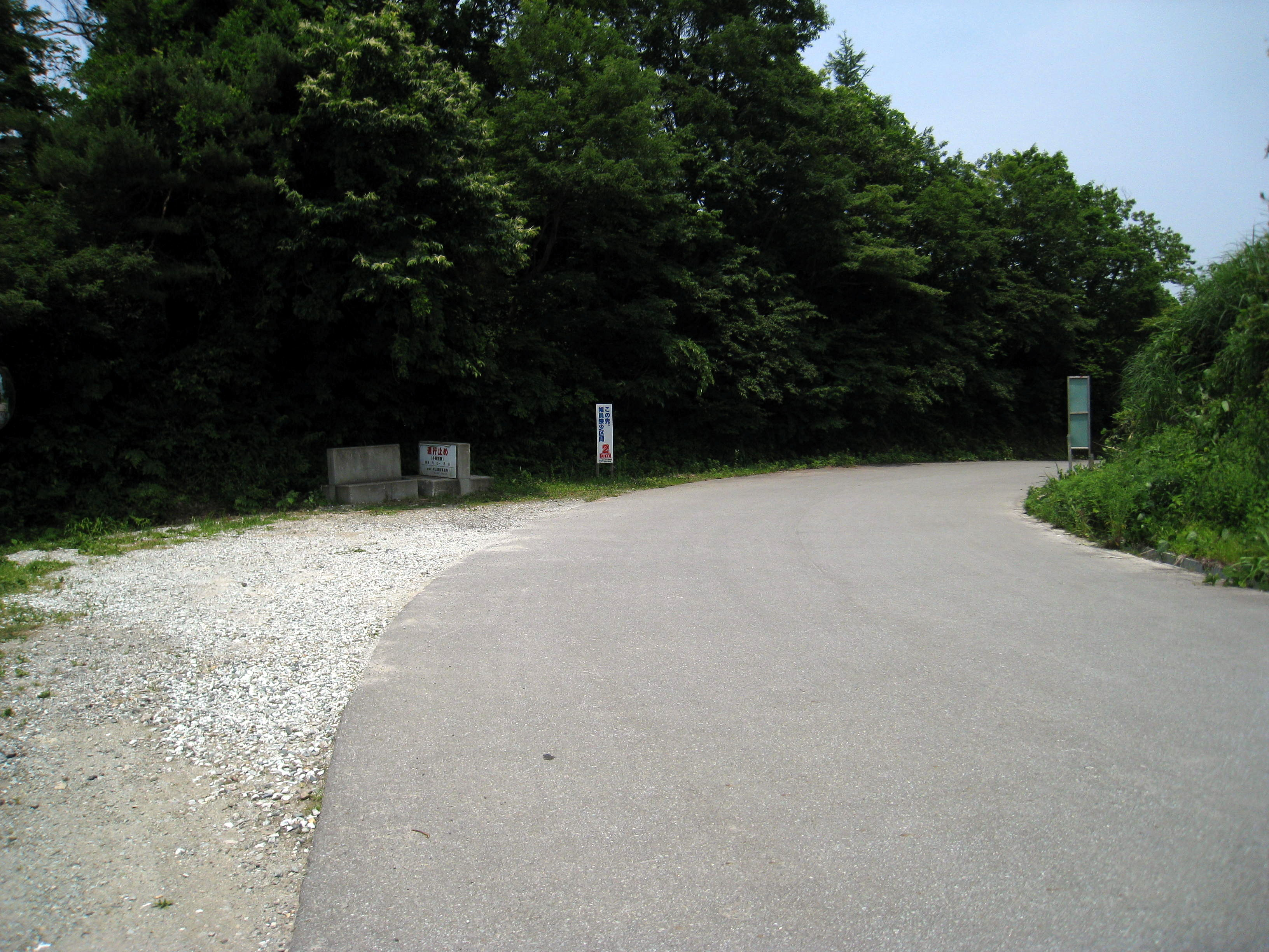 Seaburi pass. Yamagata-pref